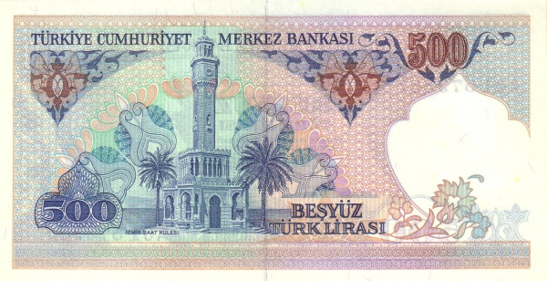 10 TL reverse